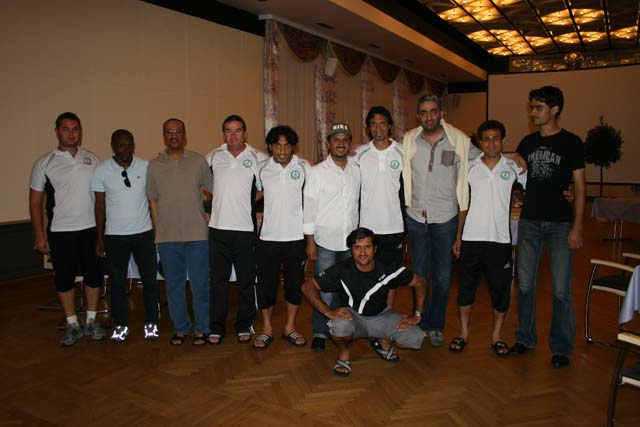 Mehdi Rajabzadeh